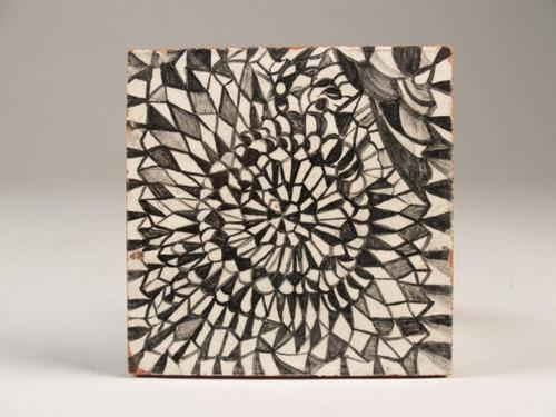 Tile with decoration of concentric drawing in gray and black on white by Harm Kamerlingh Onnes, 1953